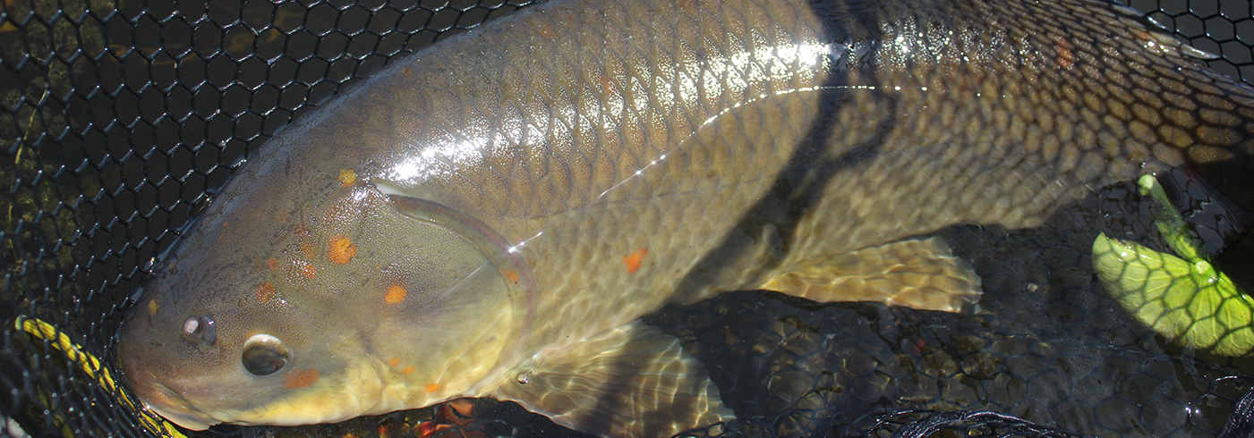 A 90 year-old male Bigmouth Buffalo showing orange spots that accrue with age